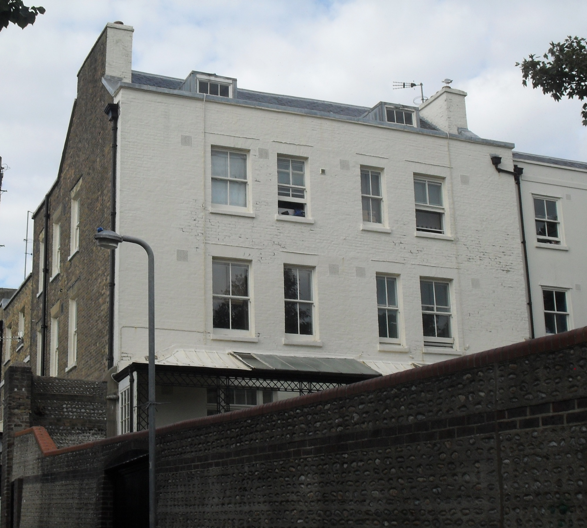 1 Tilbury Place, Carlton Hill, City of Brighton and Hove, England. A Georgian-style townhouse built in about 1815. Listed at Grade II by English Heritage (IoE Code 481372)